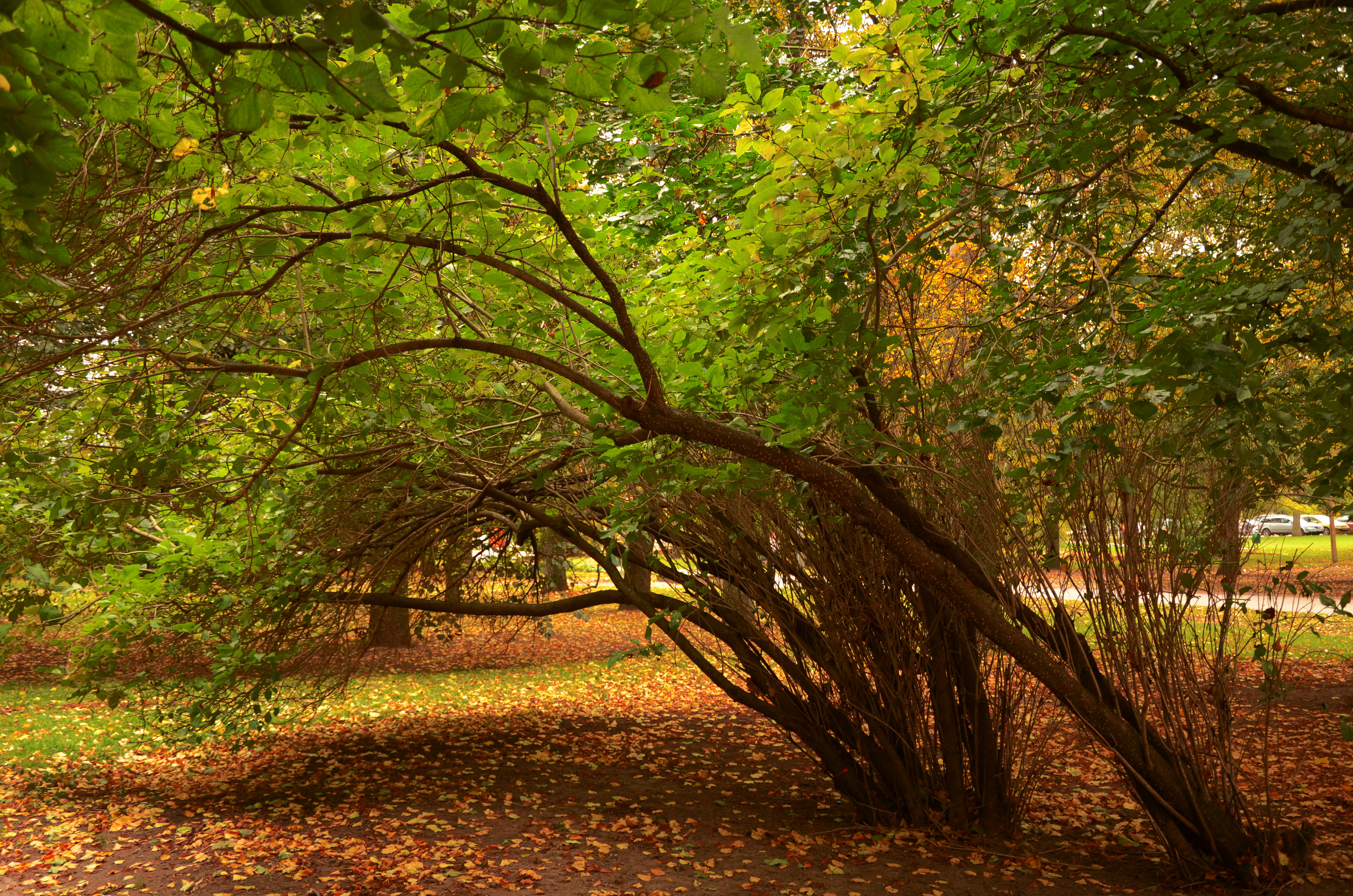 Estonia - Tartu - Ülejõe Park